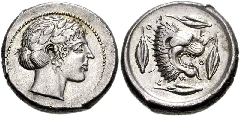 SICILY, Leontini. Circa 450-440 BC. AR Tetradrachm (25mm, 17.21 g, 12h). Head of Apollo right, wearing laurel wreath / LE-O-N-TI-NON, head of roaring lion right; four barley grains around.